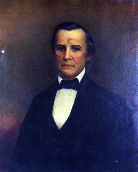 Portrait of Archibald Yell, second Governor of State of Arkansas (1797-1847)